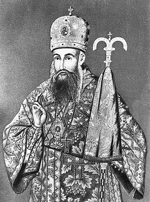 First Old Believers metropolitan Amvrosy (1791-1863)